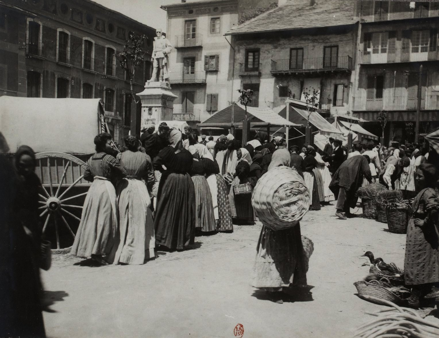 A view of the Plaça Major in Puigcerdà (Catalonia) at the beginning of the 20th century